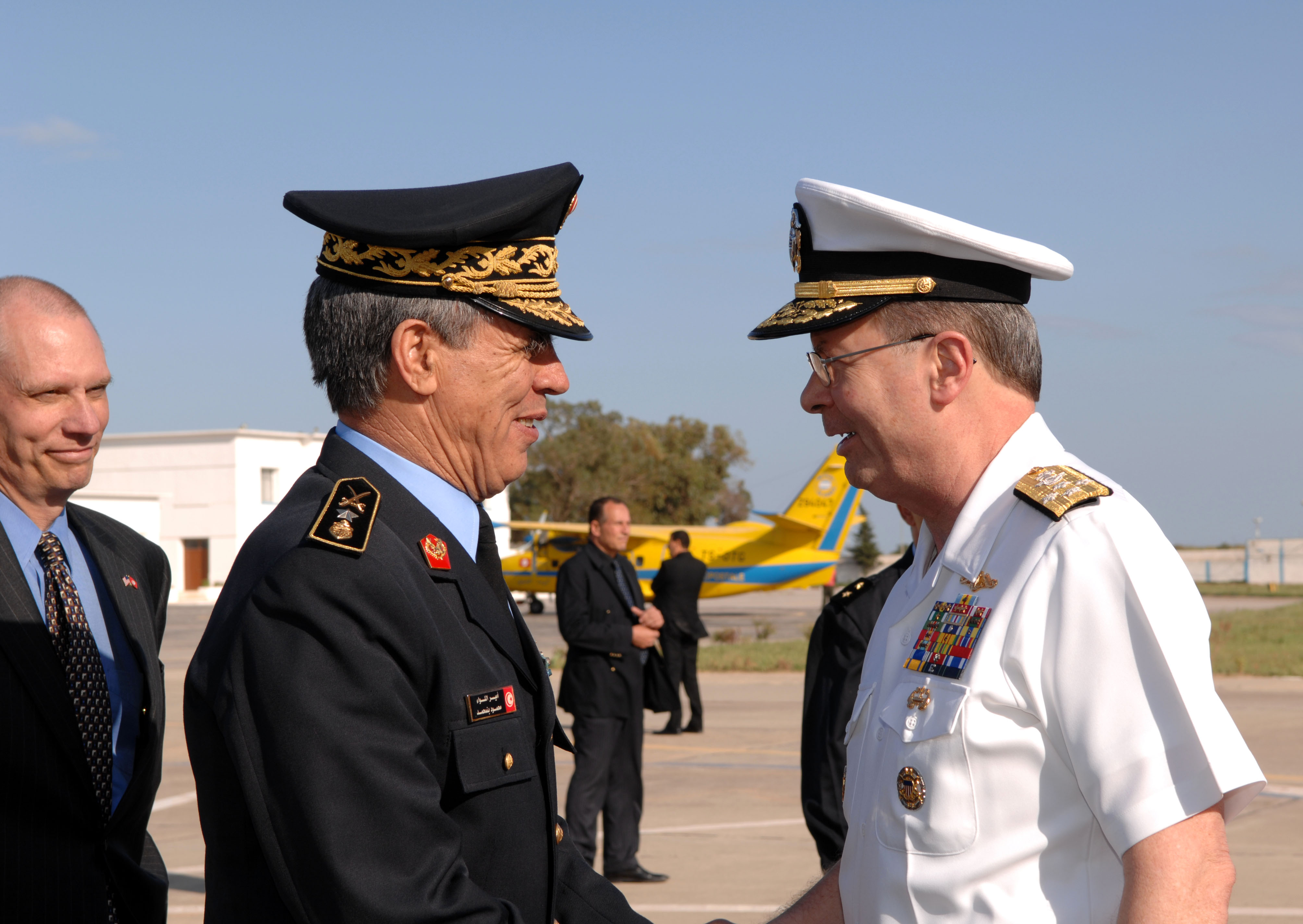 Navy Adm. Edmund P. Giambastiani (right), vice chairman of the Joint Chiefs of Staff, meets Tunisian Brig. Gen. Mahmoud Ben M'hamed, chief of staff of the Air Force, at the Carthage Aiport in Tunis, Tunisia, May 4, 2007. Giambastiani visited the country to meet with senior officials about Tunisian and American cooperation. Defense Dept. photo by Air Force Tech. Sgt. Adam M. Stump